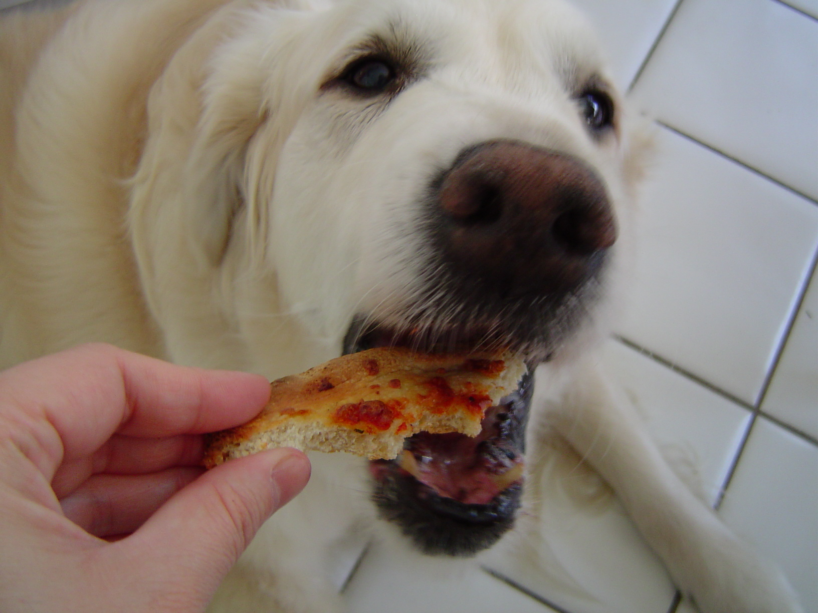 Controversial principle: human food is not dog food.